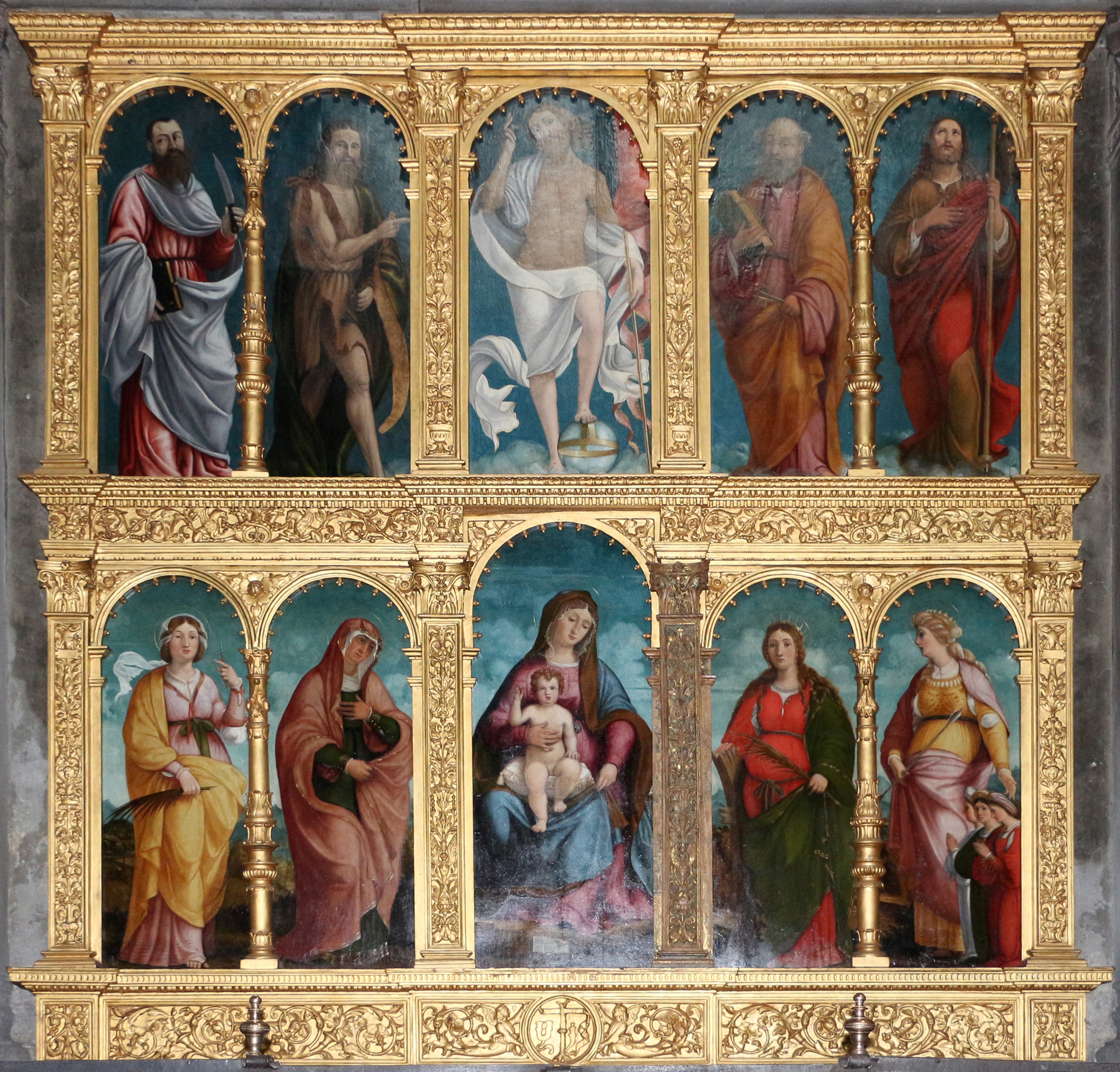 Santo Spirito (Bergamo)